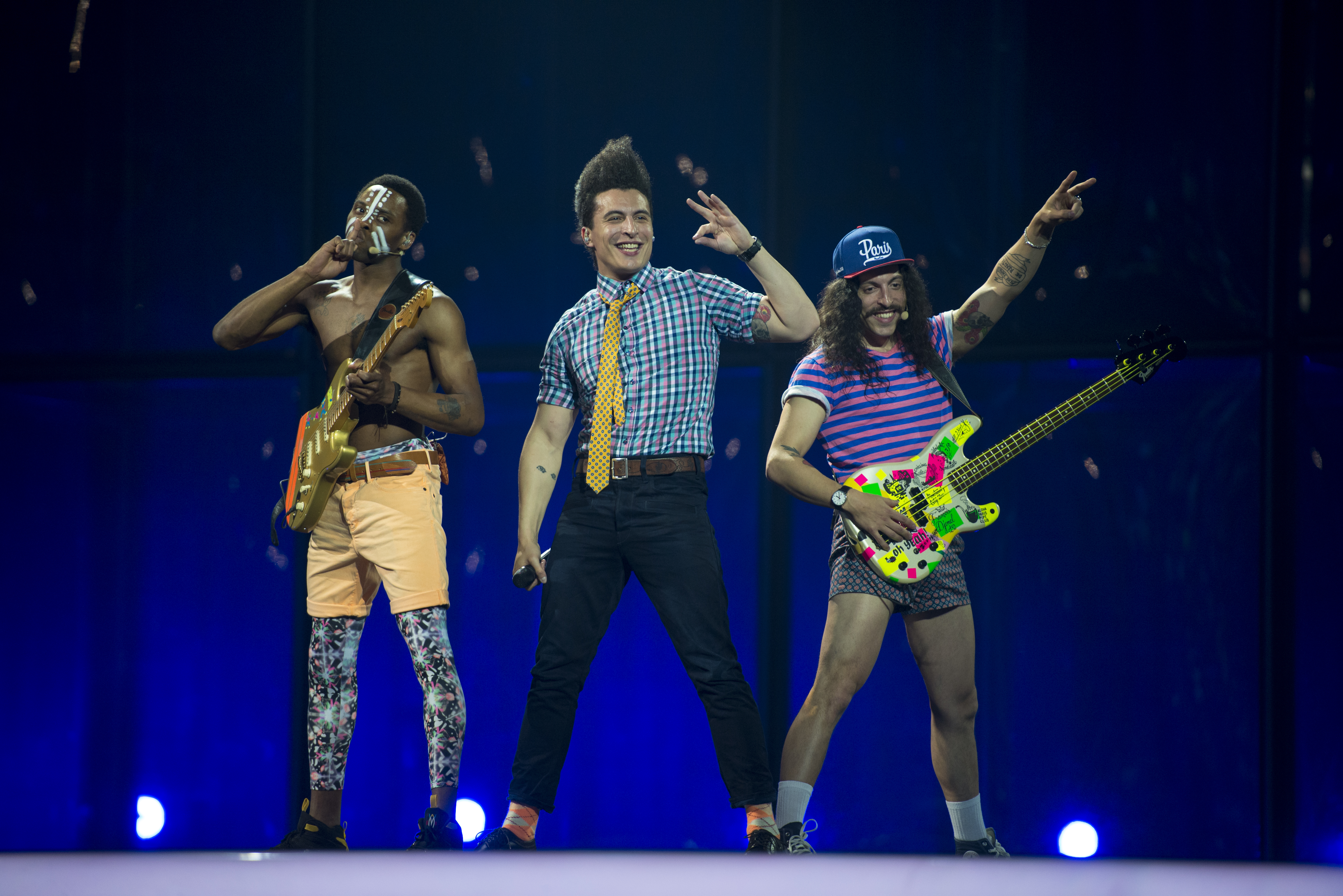 Twin Twin representing France with the song "Moustache" during the first dress rehearsal of the final of the Eurovision Song Contest 2014 Copenhagen. (Help translate this text)